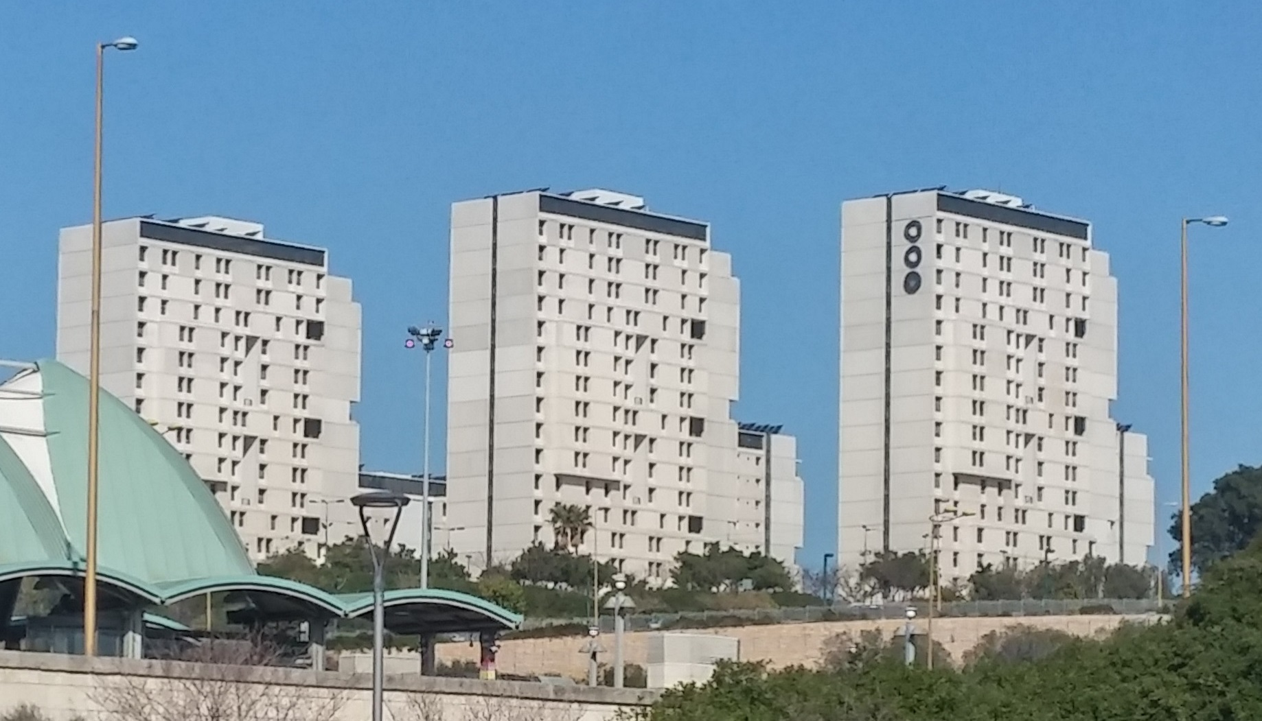 Tel Aviv University new dormitories, 2017